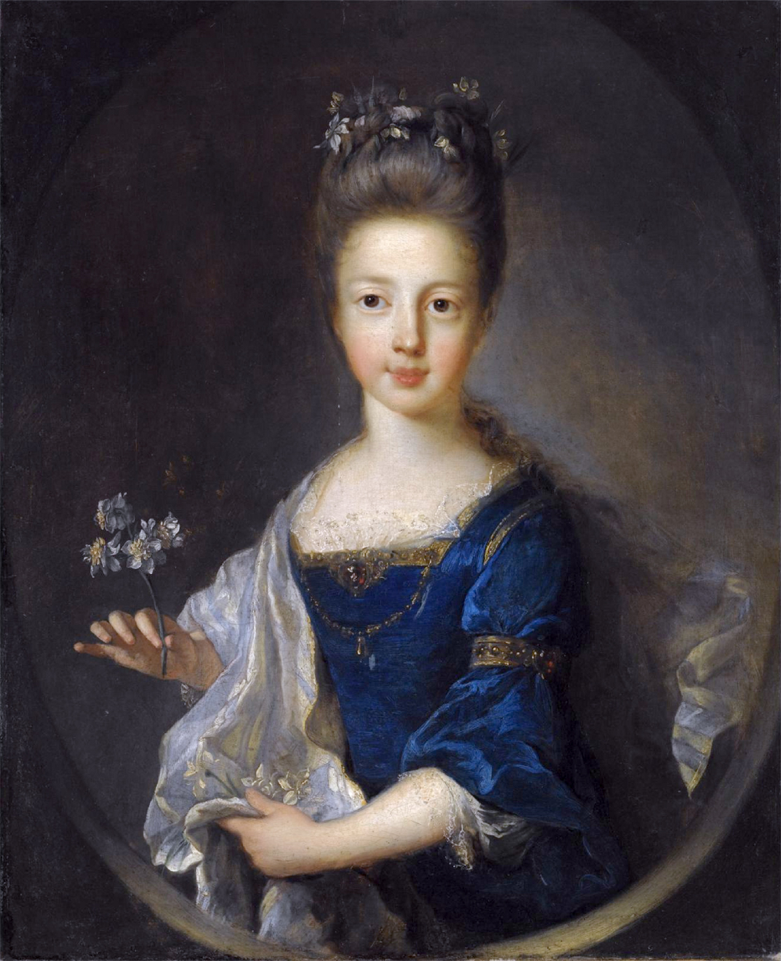 Depicted person: Louisa Maria Theresa Stuart (1692-1712), daughter of James II and Mary of Modena